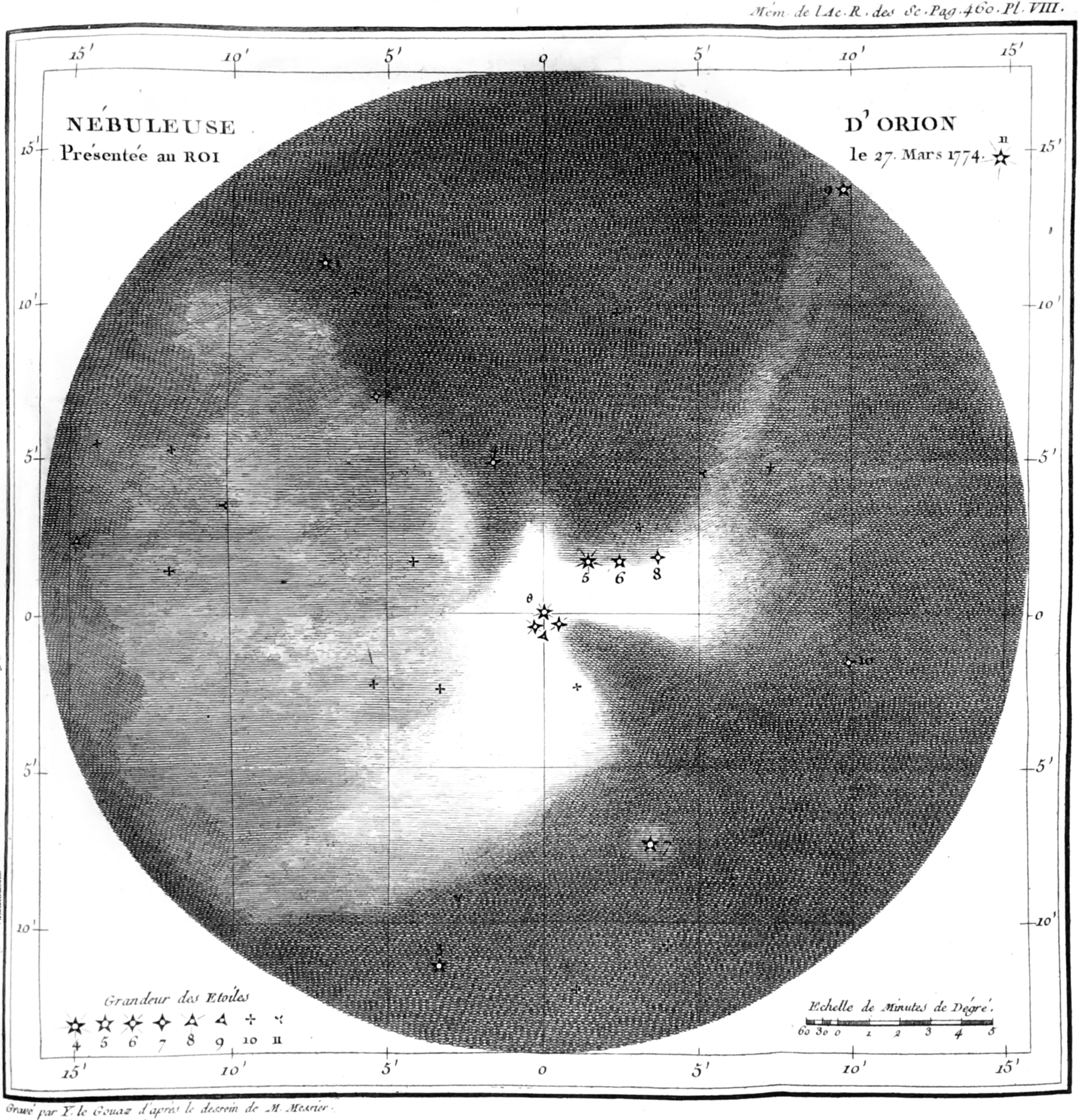 Orion Nebula (M42) - graphic by Charles Messier